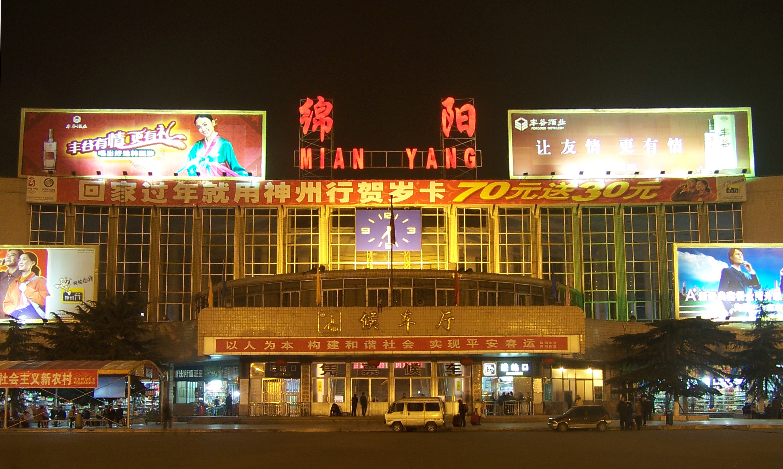 Night Scene of Mianyang Railway Station